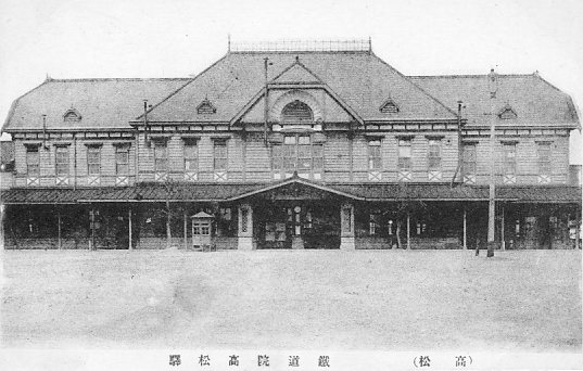 The main building of Takamatsu railway station in Takamatsu, Kagawa, Japan. Caption reads "Takamatsu Station of Railway Institute, Takamatsu." This building was built in 1910 and closed in 1959. Since the Railway Institute (Tetsudō-in) was reorganized into the Ministry of Railways in 1920, this picture must be taken in between 1910 and 1920.